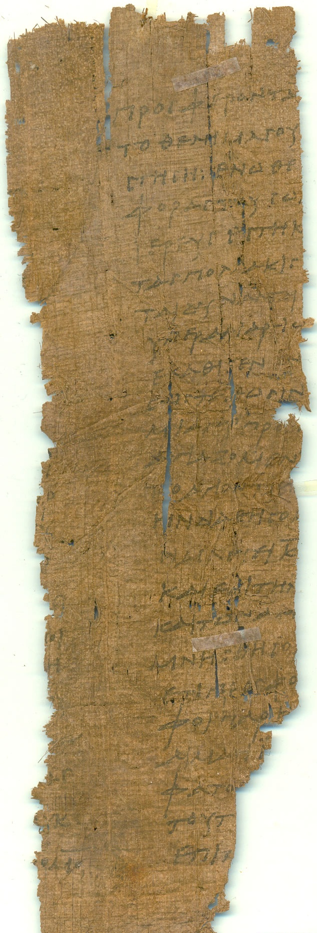 Papyrus PSI 1292 - Papyrus 13, P. Oxy. IV 657 - Epistle to the Hebrews 10,8–22 - Egyptian Museum, Cairo